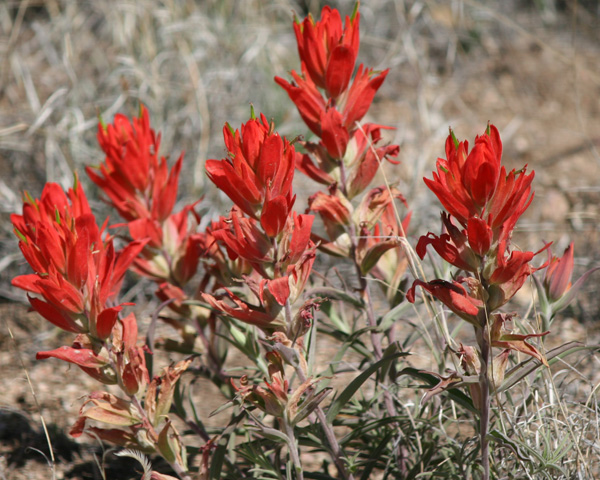 Indian Paintbrush